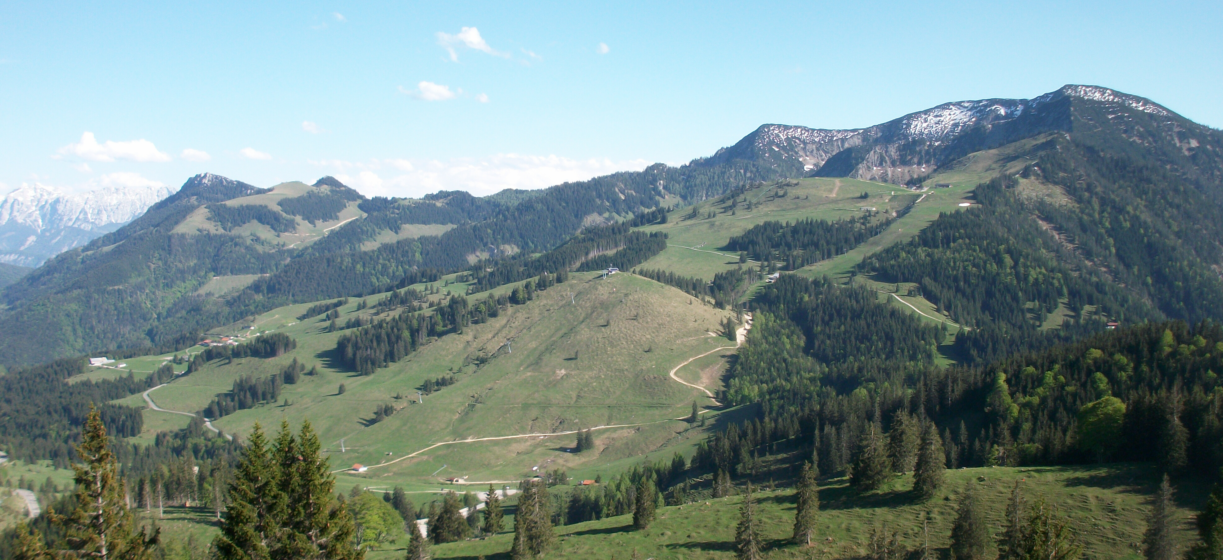 Sudelfeld during summer